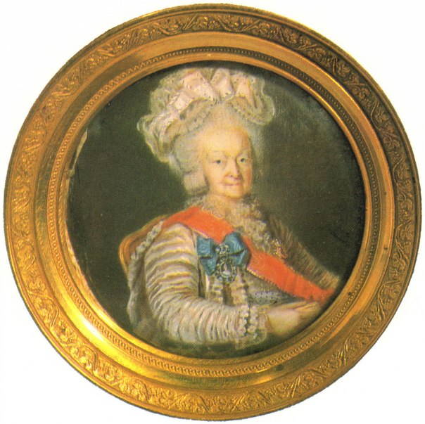 Countess Maria Rumyantseva